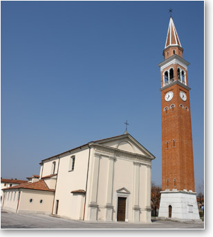 Ghirano's church